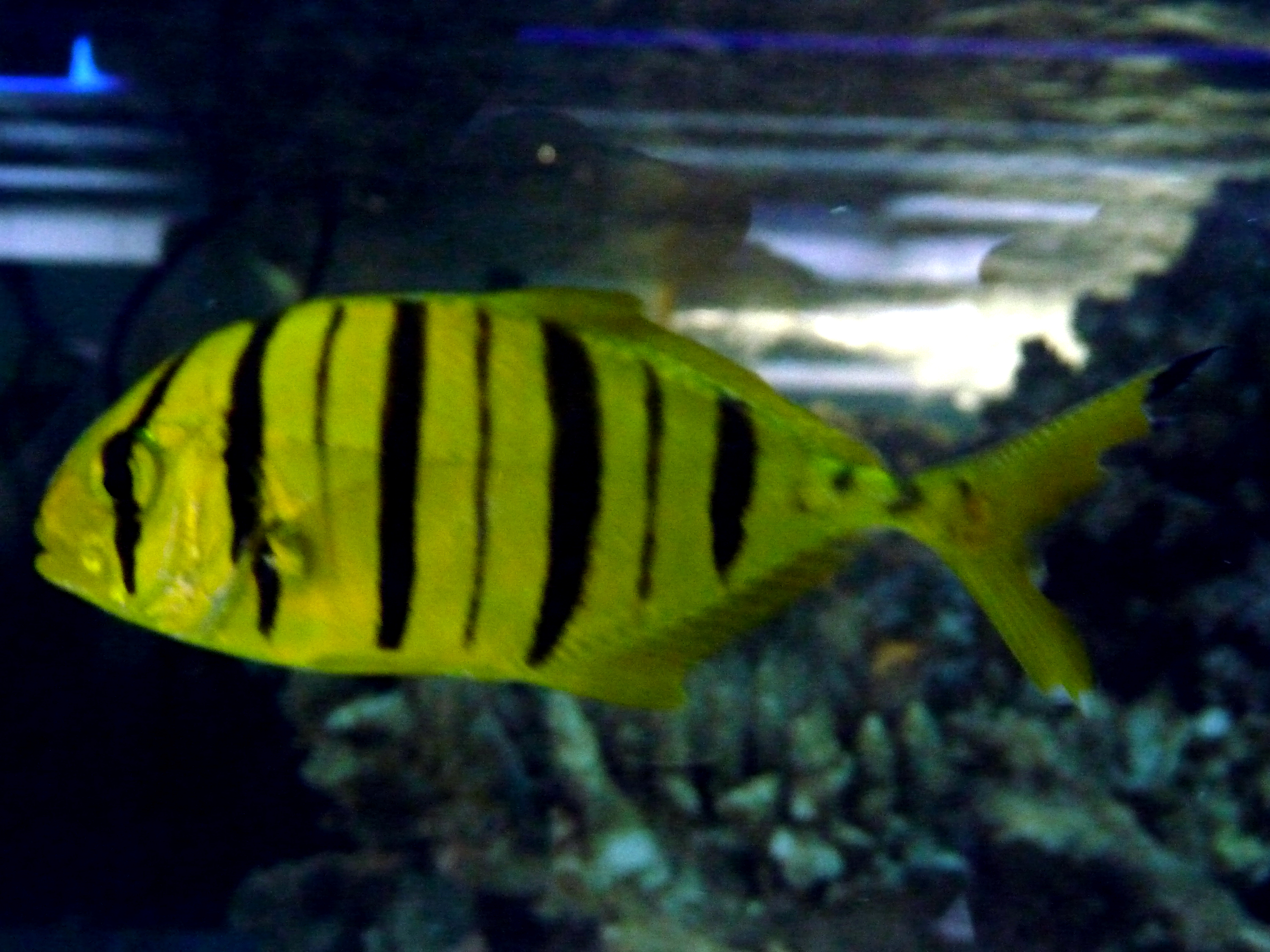 Gnathanodon speciosus